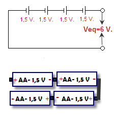 Batteries connected in series (serial conection)